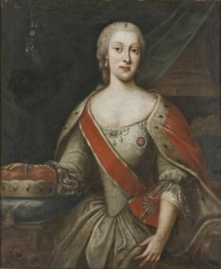 Portrait of Maria Anna Sophia of Saxony (1728-1797), Electress of Bavaria